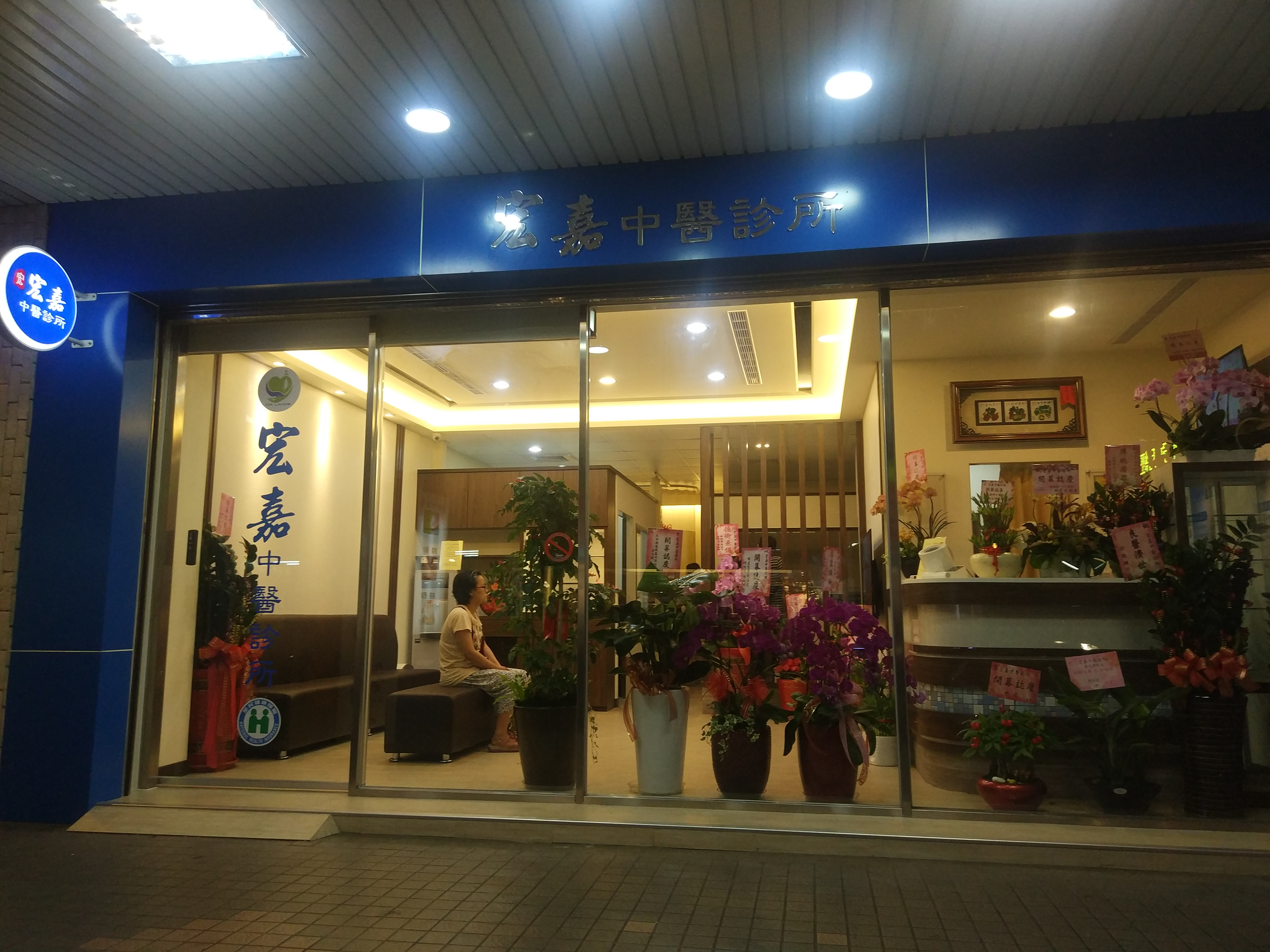 Hongjia Chinese Medical Clinic, Xinzhuang District, New Taipei City.